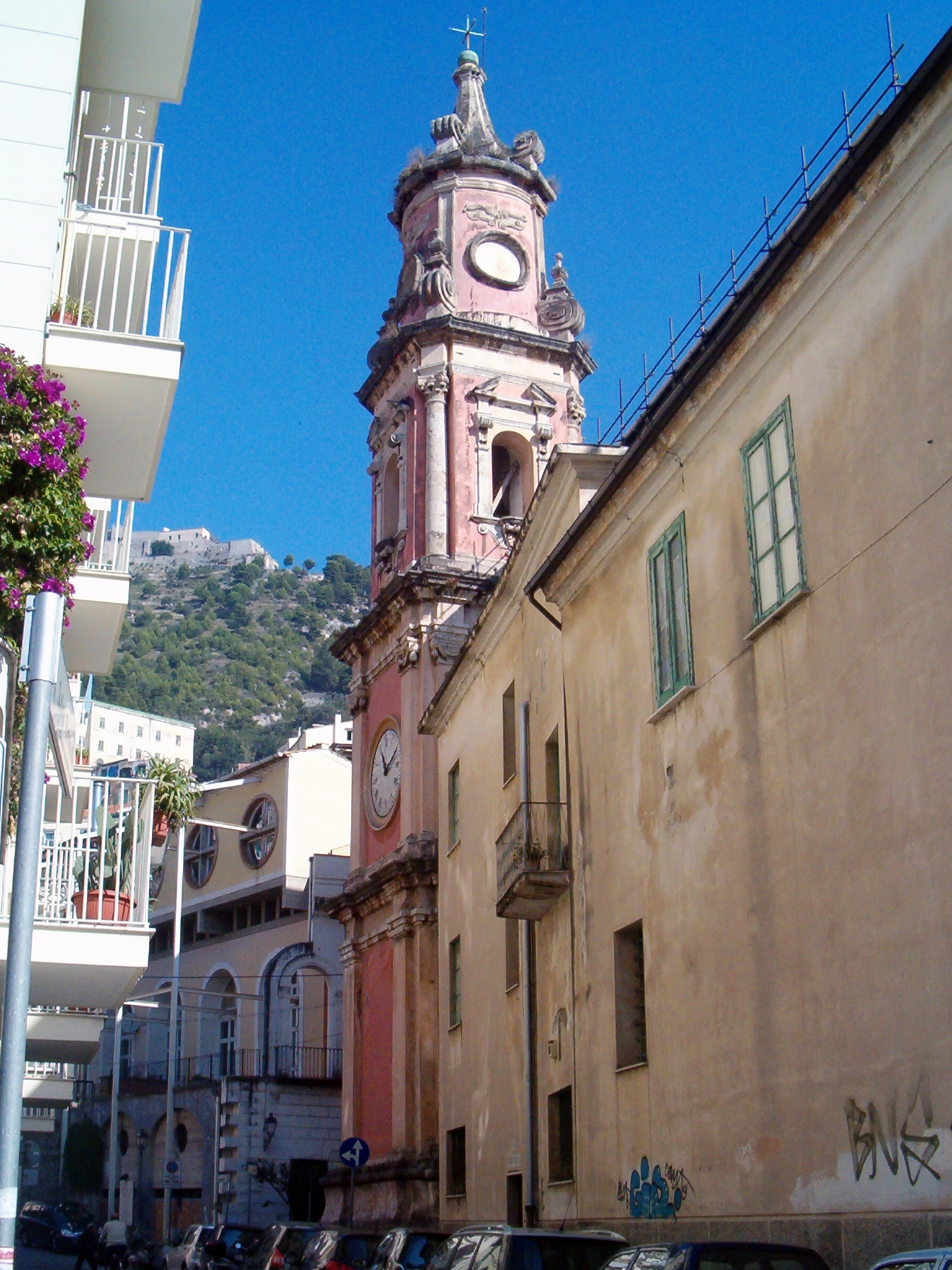 Church tower in Salerno.